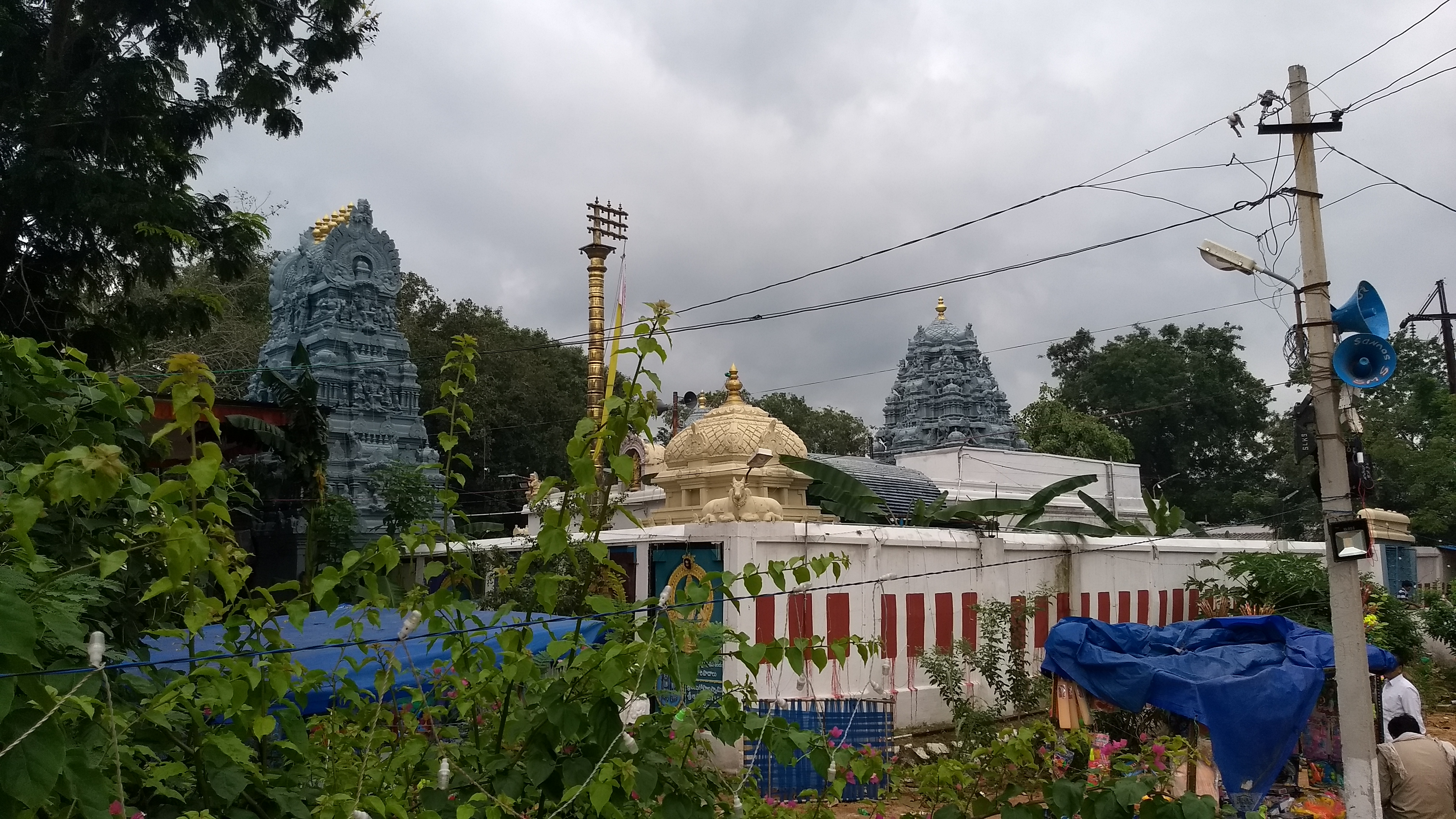 Agasteeswara Temple, Mukkoti, Tirupati